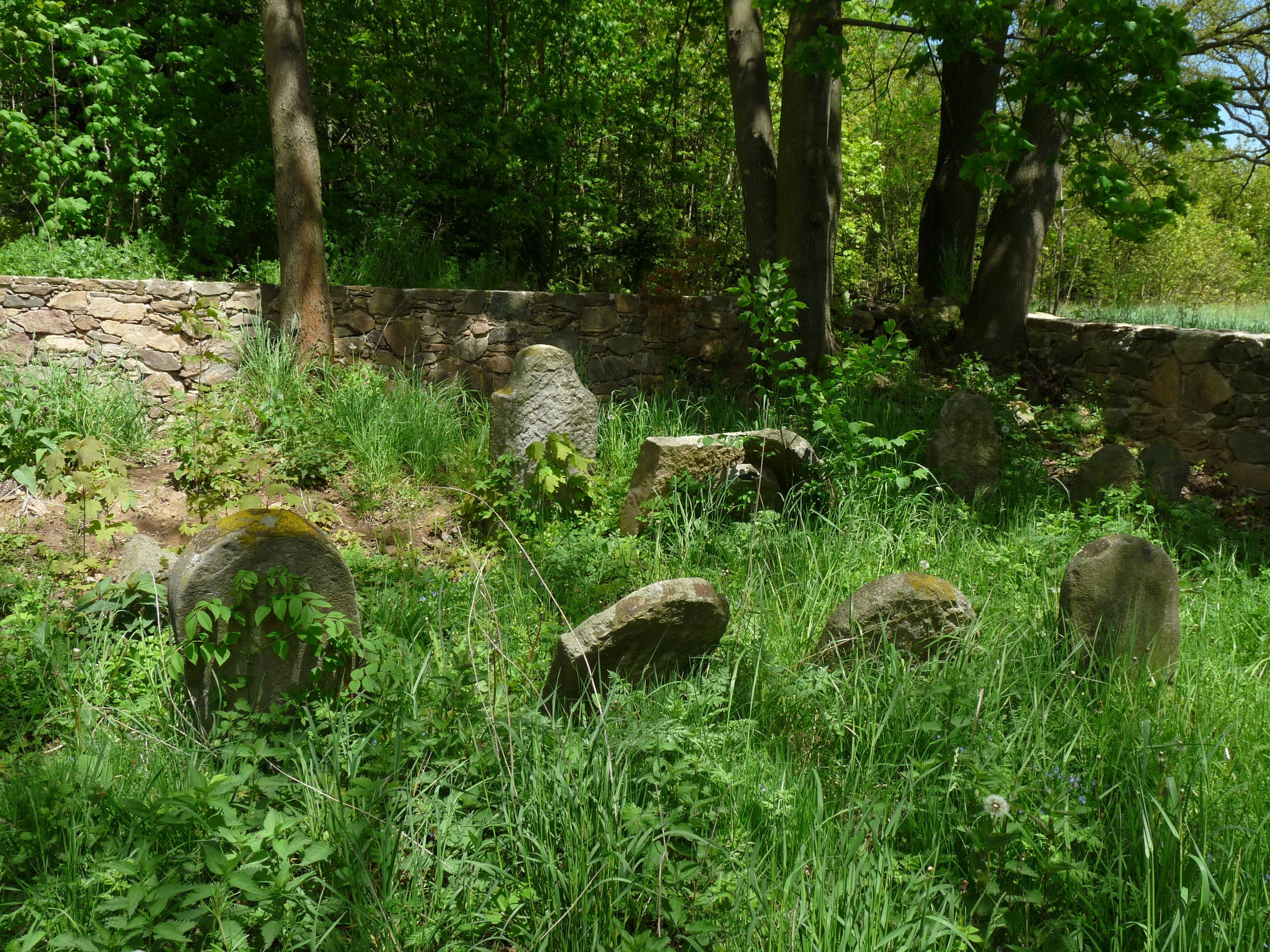 Jewish cemetery by the municipality of Pavlov, Pelhřimov District, Vysočina Region, Czech Republic.